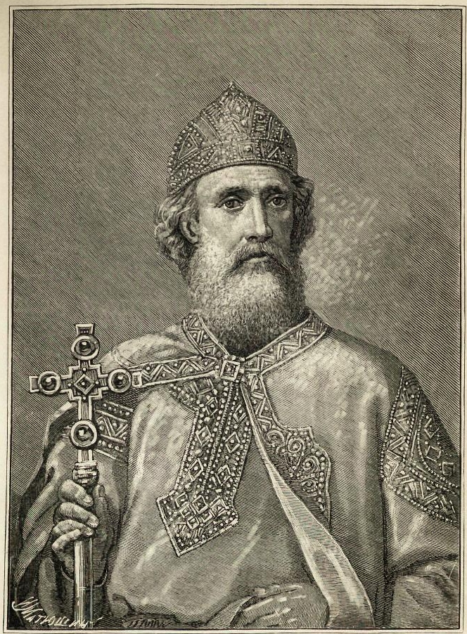 Vladimir I of Kiev